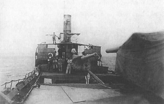 Gunboat Red Star, 1921.